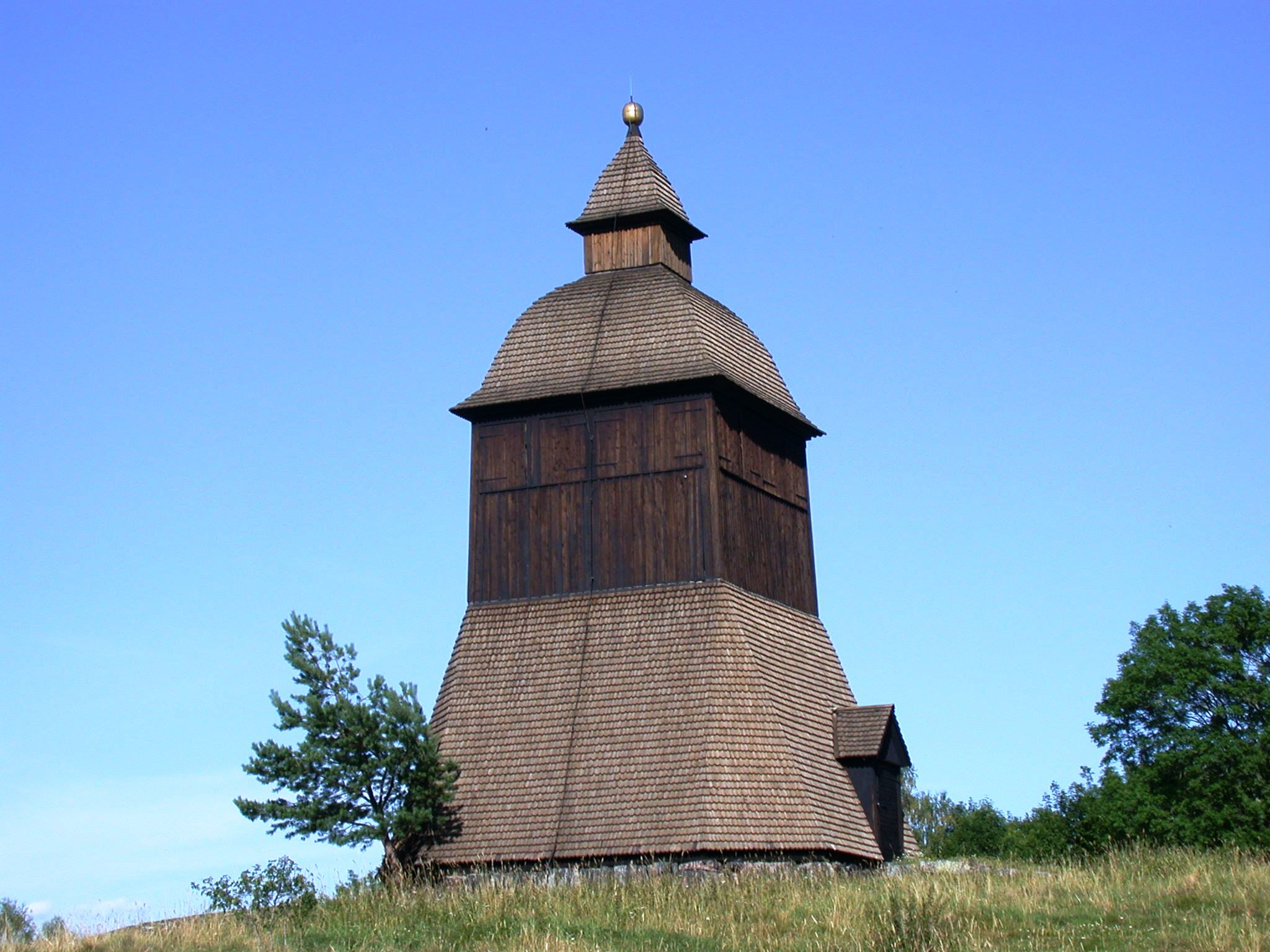 The bell tower, Litslena church, Enköping, Sweden. Photo by Riggwelter, July 16, 2006.